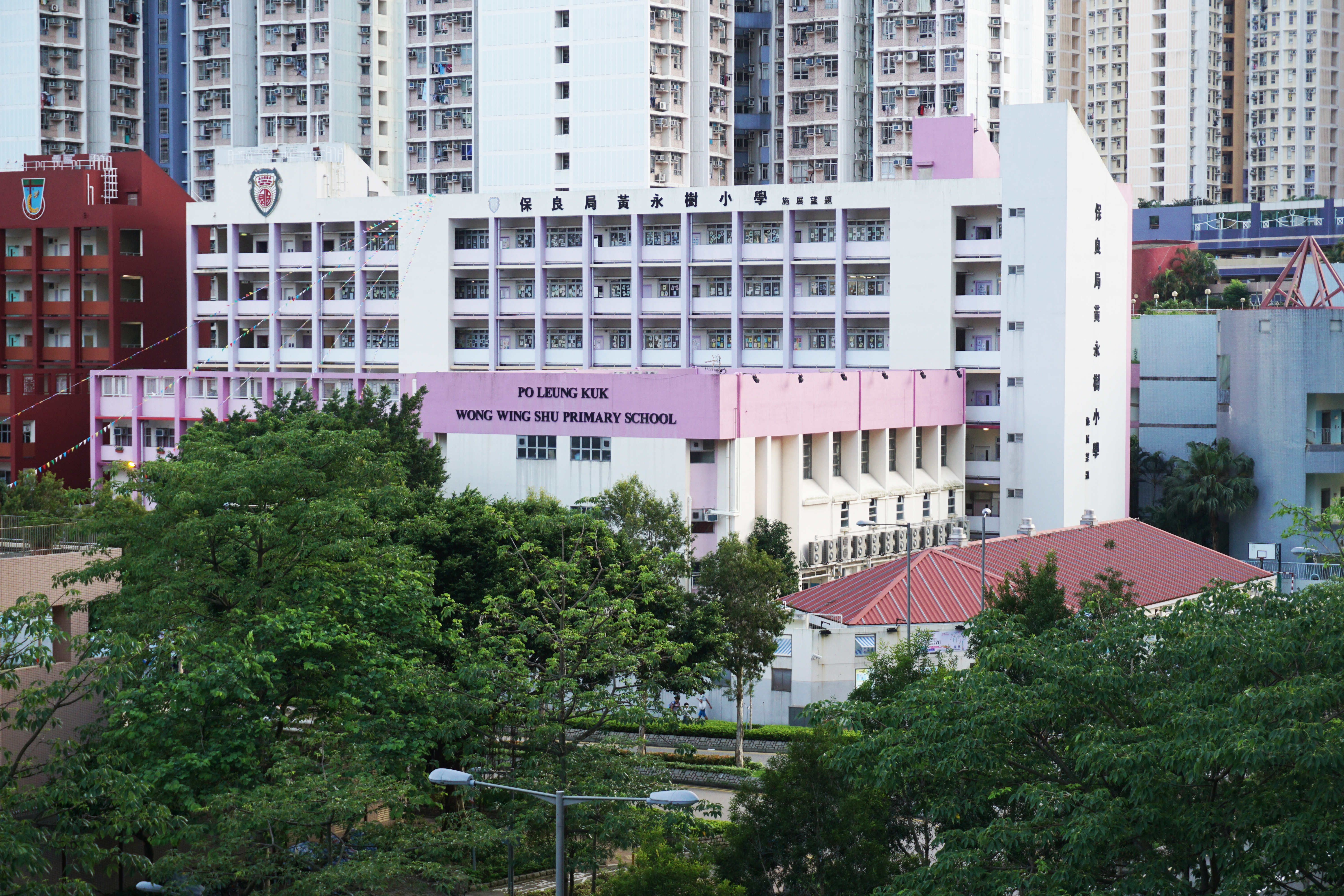 Po Leung Kuk Wong Wing Shu Primary School in Tseung Kwan O, Hong Kong.